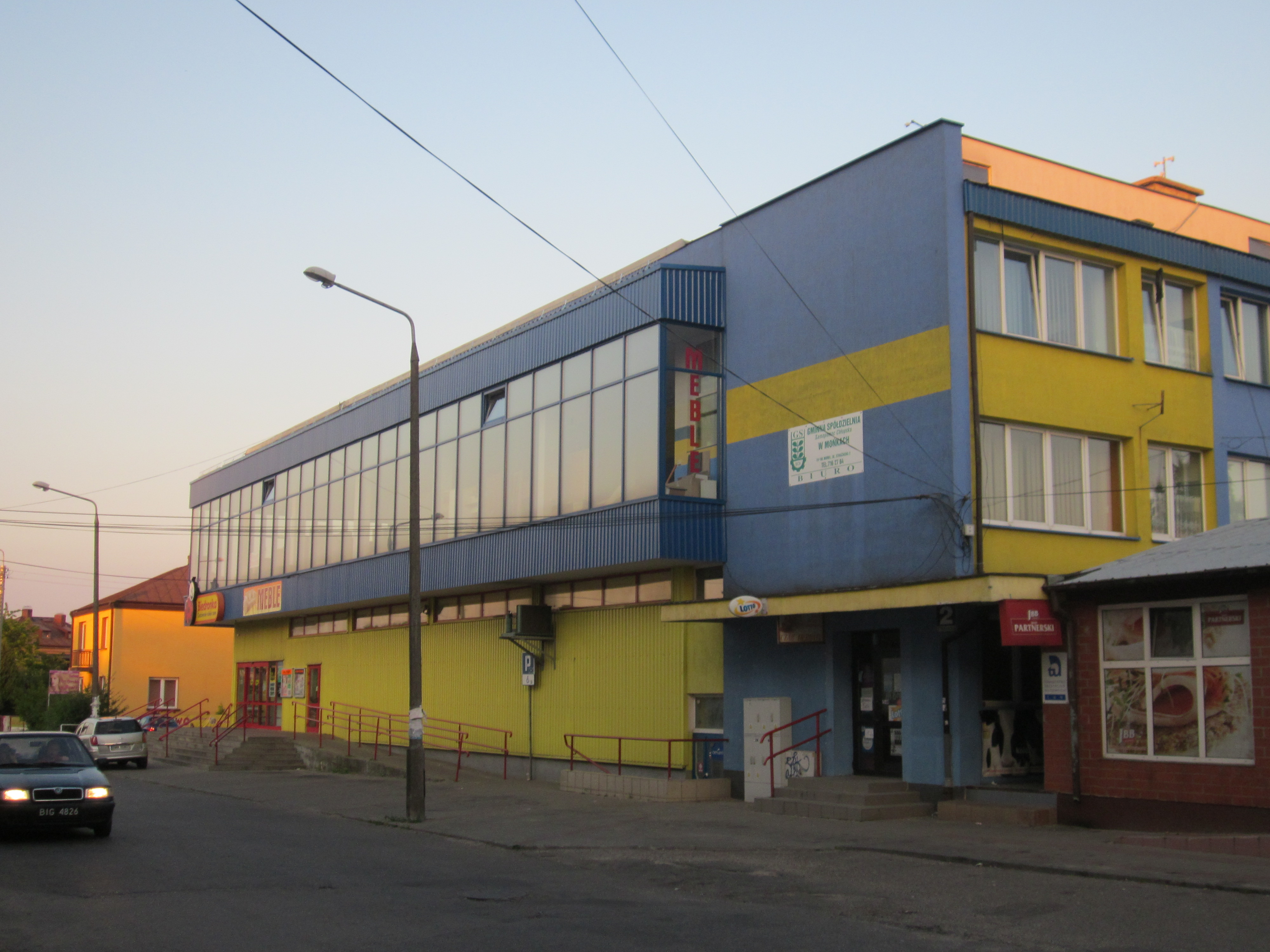 Building of the Municipal Cooperative „Samopomoc Chłopska” in Mońki, at 2 Strażacka Street.